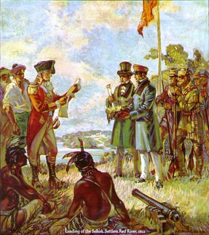 Landing of the Selkirk Settlers, Red River, 1812, J.E. Schaflein, HBCA, PAM P-388 (N11312), HBC’s 1924 calendar illustration, Hudson’s Bay Company Archives, Provincial Archives of Manitoba